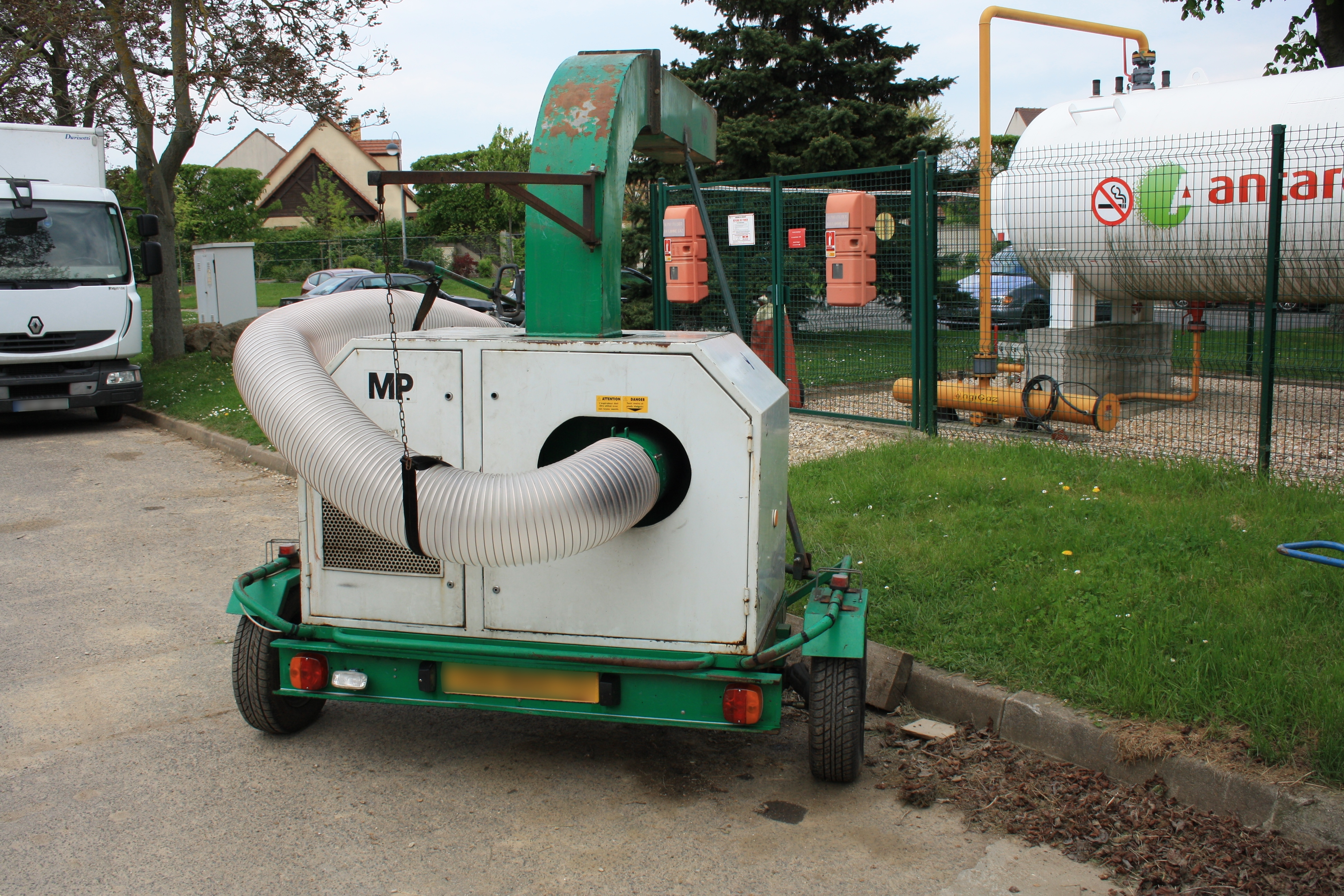 Horticultural production center of Paris in Rungis, France; a trailed vacuum leaf collector